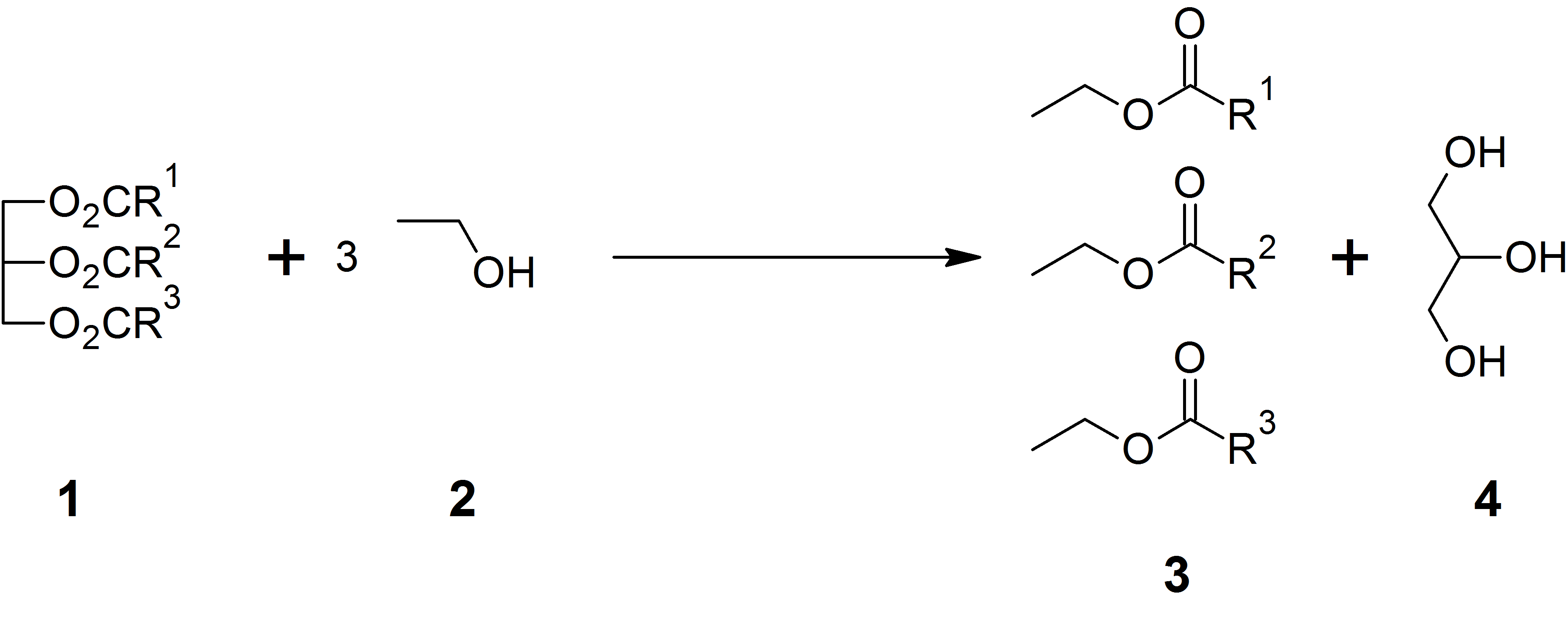 Transesterification of triglycerides with ethanol to give biodiesel and glycerol. Language free, labeled with numbers.